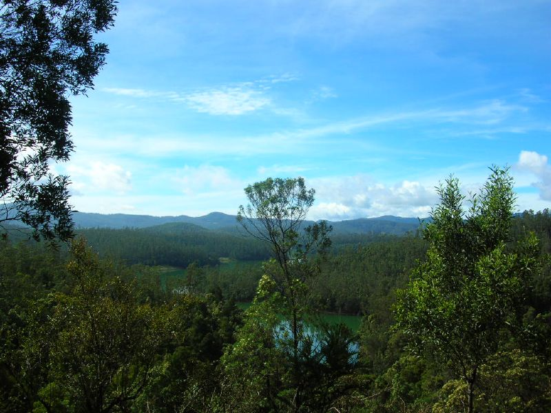 Nilgiri Hills in Tamil Nadu